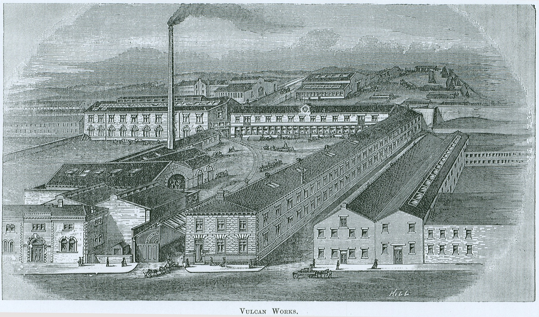 Illustration of the Vulcan Iron Works, Thornton Road, Bradford, England. Engraving from Industries of Yorkshire, ca 1888.